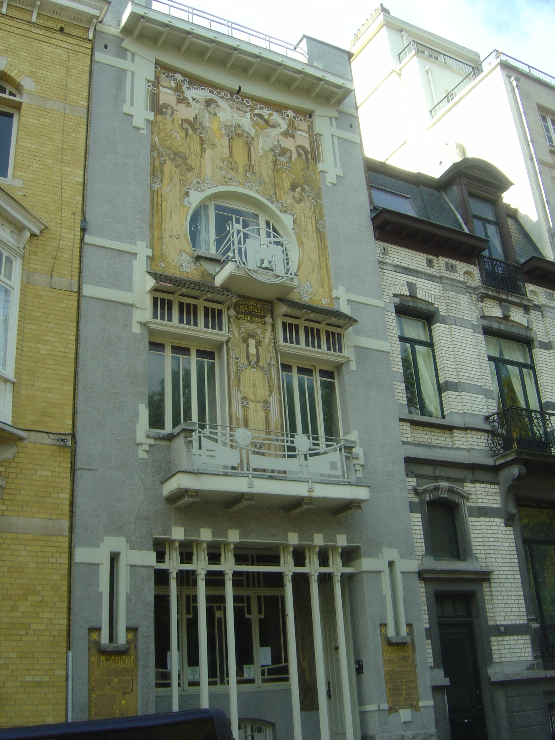 Maison Cauchie